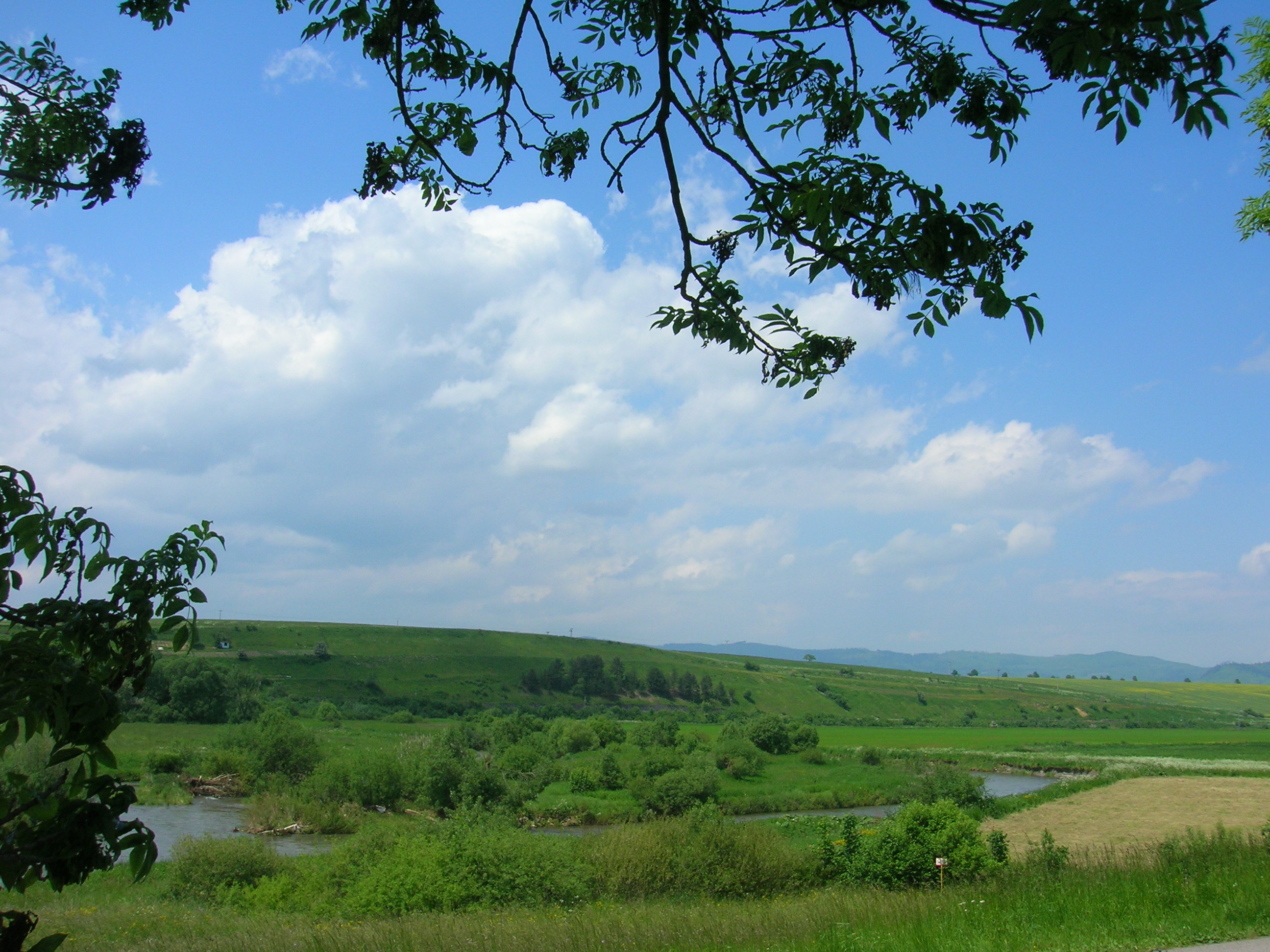 the river Poprad near Spišská Biela in northern Slovakia